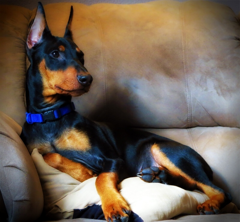 German Pinscher Resting On A Chair